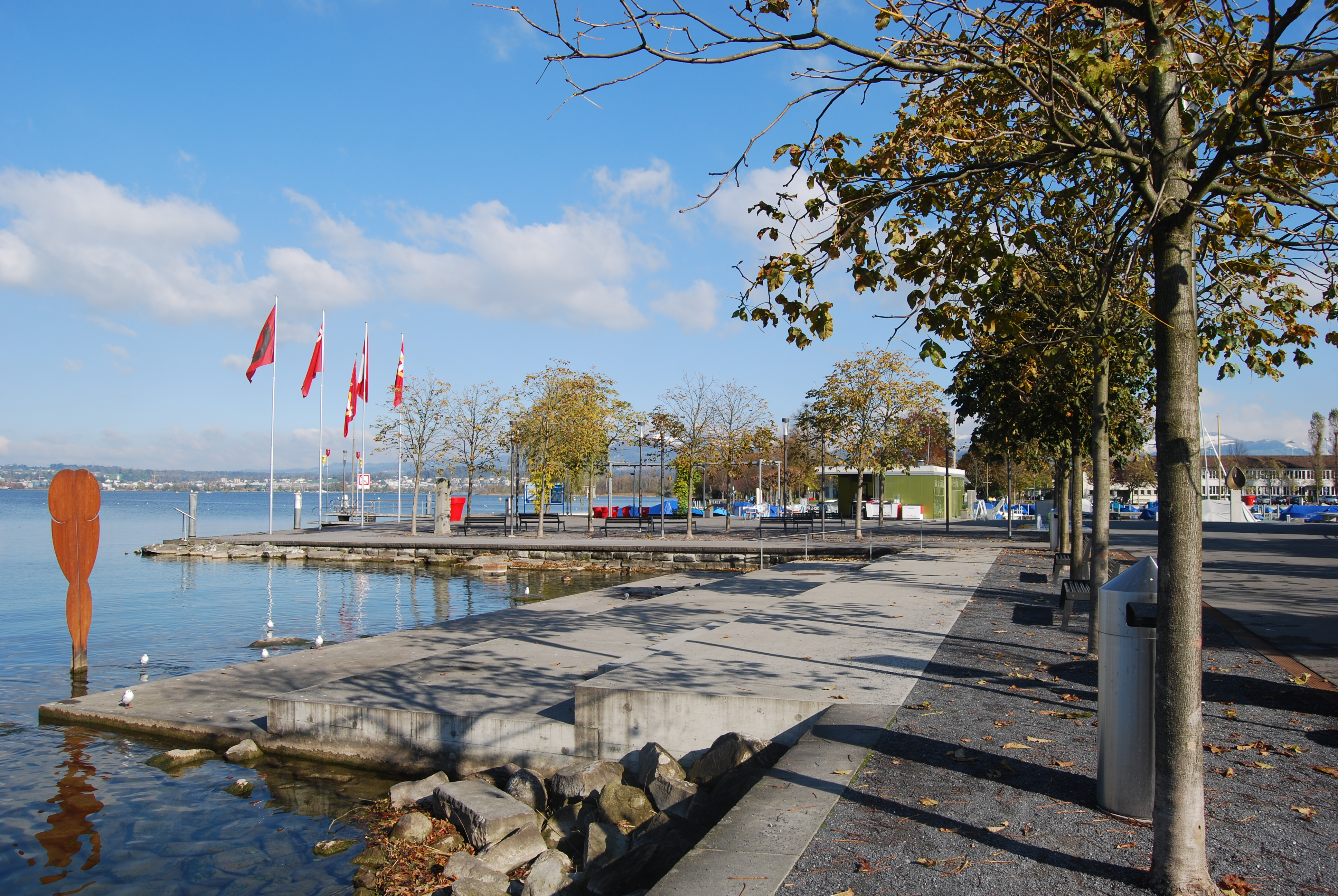 Lachen, canton of Schwyz, SwitzerlandEsperanto: Lachen, Kantono Sankt-Galo, Svislando